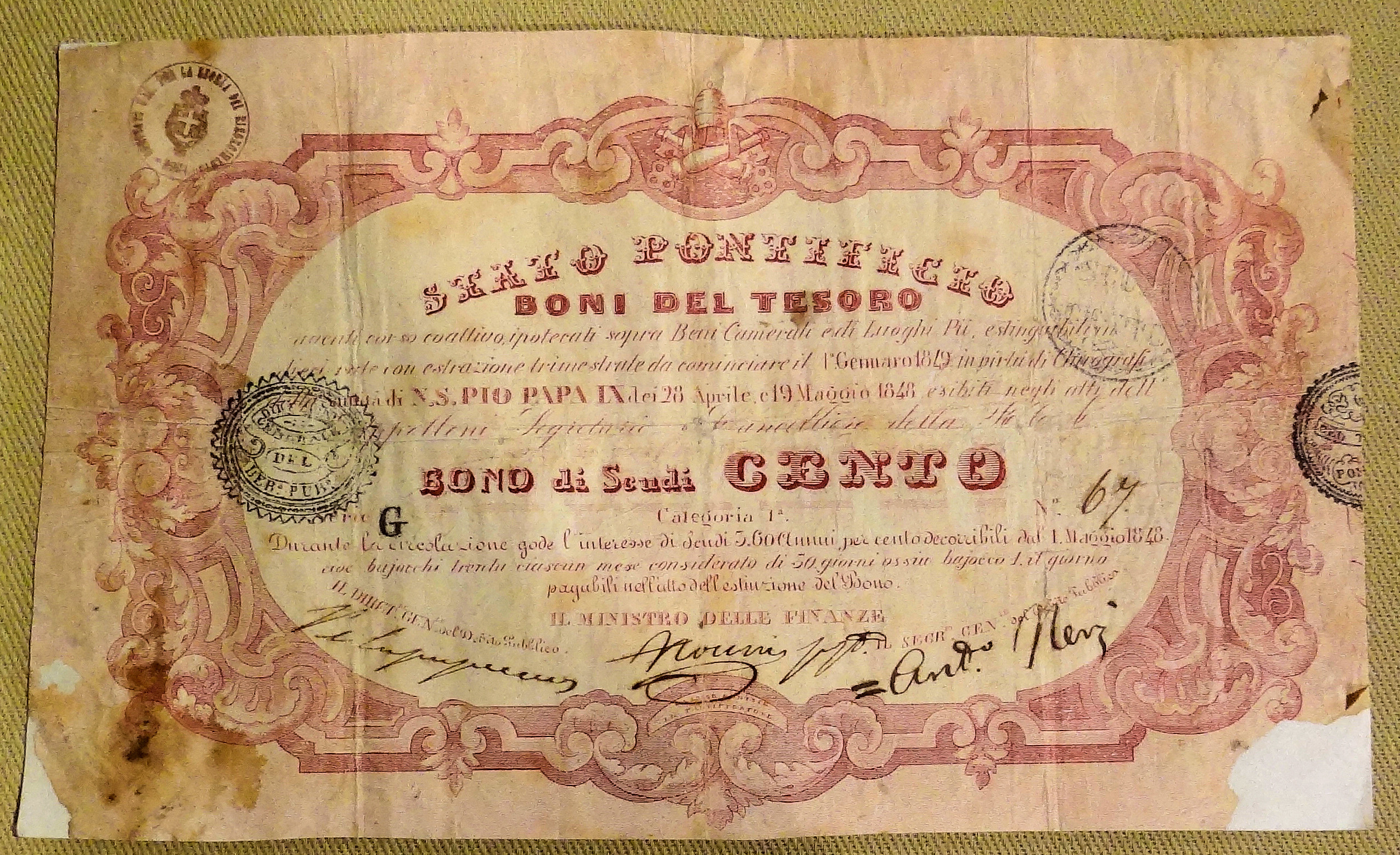 A 100 Italian scudi note, issued in the 19th century, photographed at the Museum of Italian Reunification in Rome, Italy.